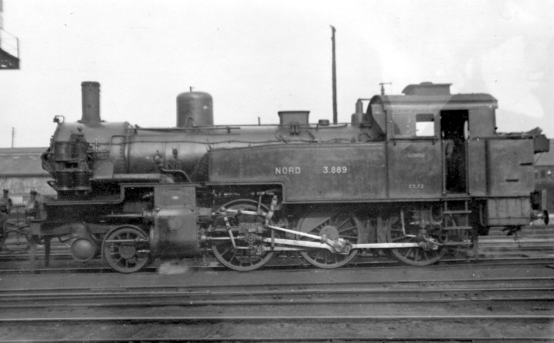 Steam locomotive 130 Nord 3-889.